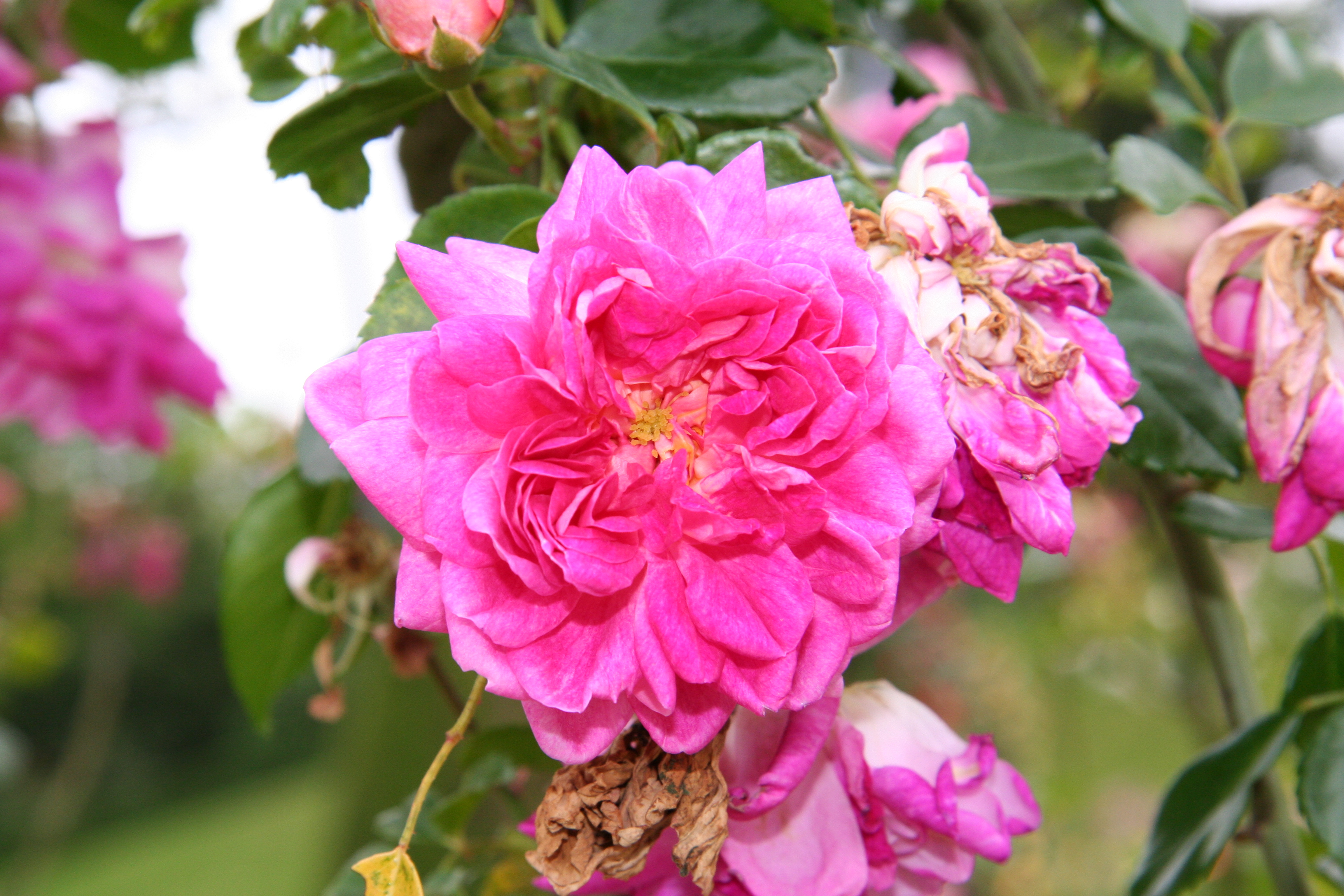 Alexandre Girault rose - Bagatelle Rose Garden (Paris, France).